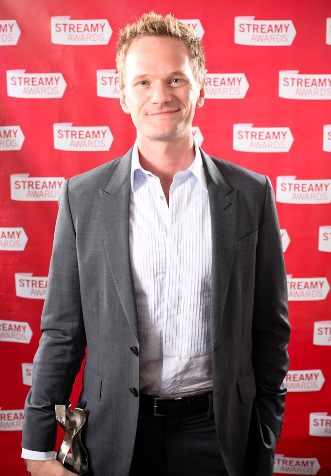 Neil Patrick Harris at the 1st Streamy Awards in 2009.